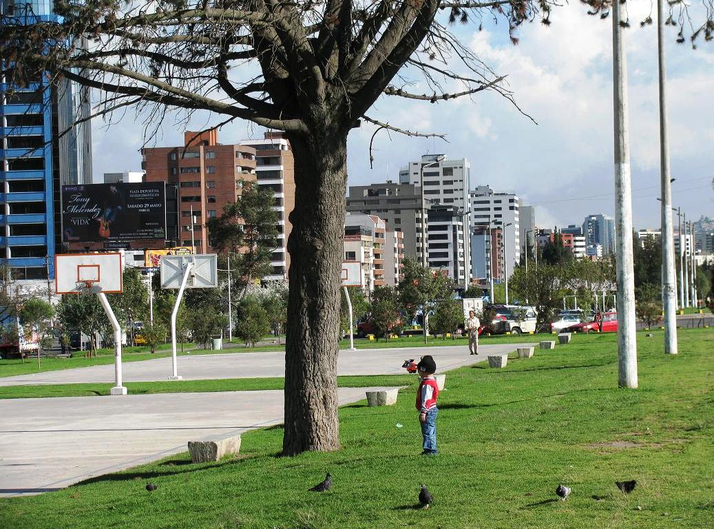 La Carolina Park, sports area